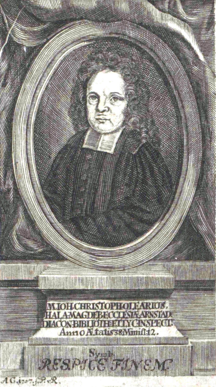 Johann Christoph Olearius (1668–1747)